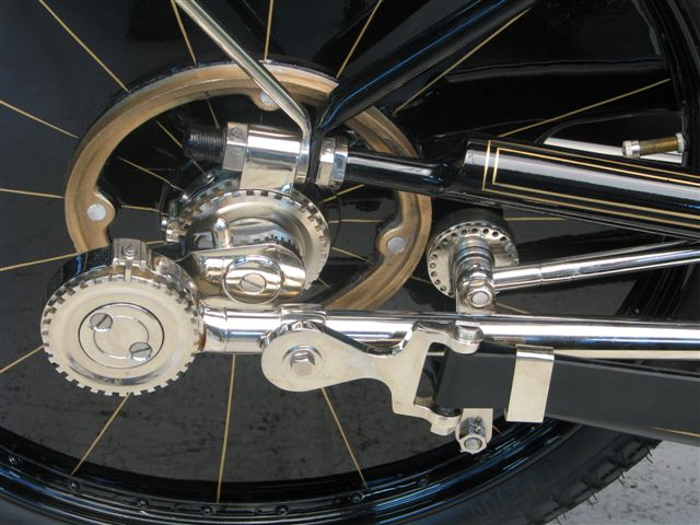 Hildebrand & Wolfmüller motorcycle 1894 detail.